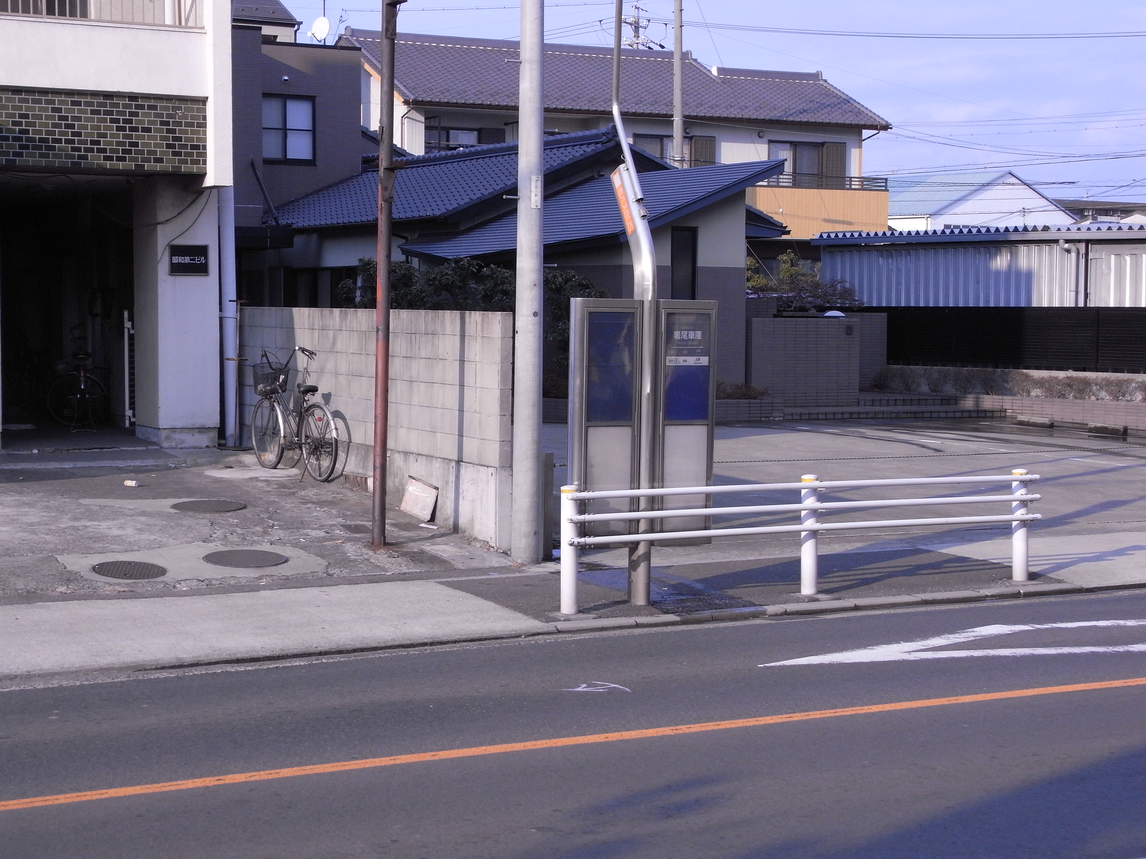 Nagoya City Bus Naruo-shako (Naruo Depot) Bus Stop